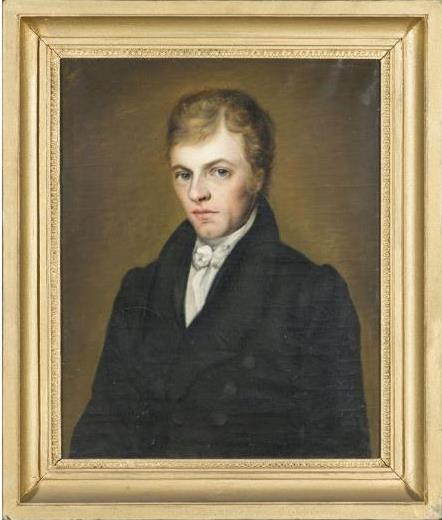 Painting of Dutch astronomer Elte Martens Beima (1801-1873) by Jan Hendrik Heijmans (1806-1888)